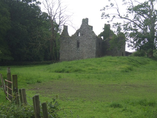 Link